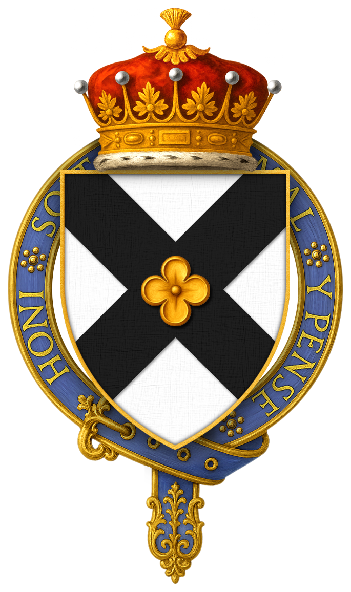 Coat of Arms of Stanley Baldwin, 1st Earl Baldwin of Bewdley, KG, as displayed on his Order of the Garter stall plate in St. George's Chapel.